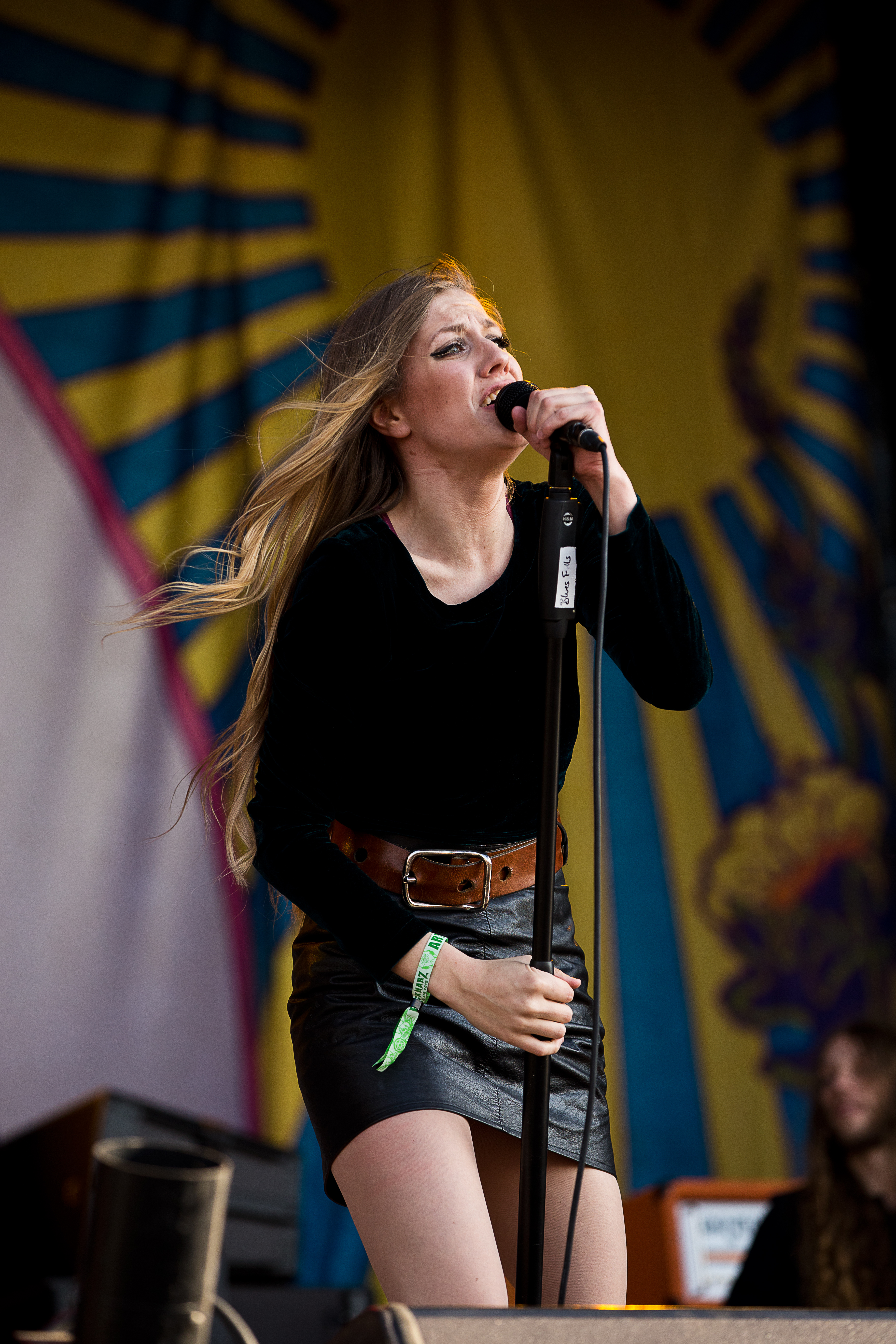 The Swedish blues rock band Blues Pills at the Rockharz Open Air 2015 in Ballenstedt/Germany.